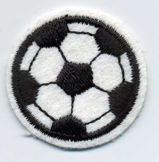 Sample of an embroidered patch, using colored thread to create an image